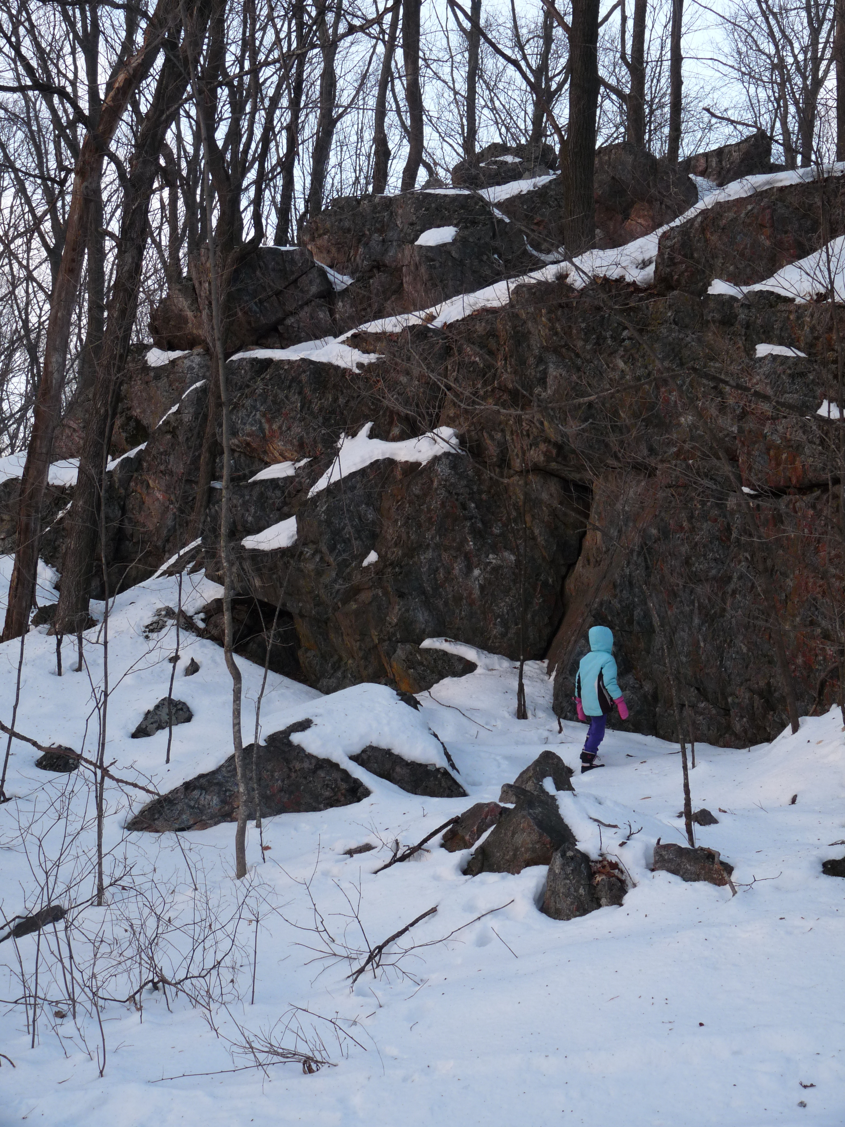 Quartzite outcrop at top of Powers Bluff near Arpin, Wisconsin.